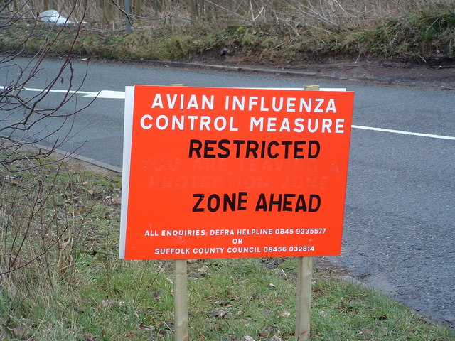 Avian Influenza ( Bird Flu ) Sign. Avian influenza (bird flu) sign at the junction of the A140 and the B1078. This has become the entrance to the restricted zone more info other side of the sign see 338388